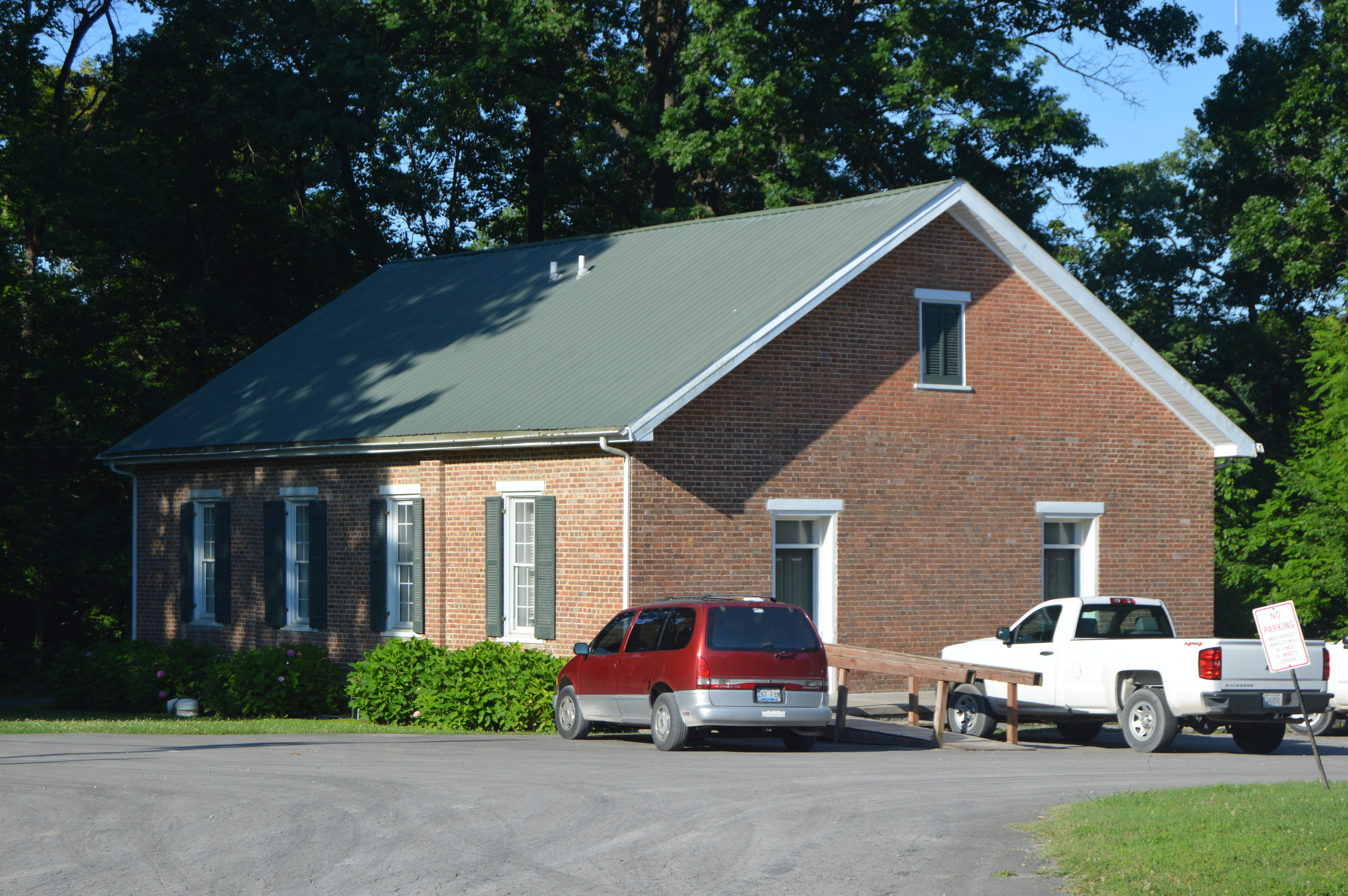 Front and eastern side of the former Zion Baptist Church, located at the intersection of Kentucky Routes 55 and 92 southeast of Columbia in Adair County, Kentucky, United States. Built in 1837, it is listed on the National Register of Historic Places.